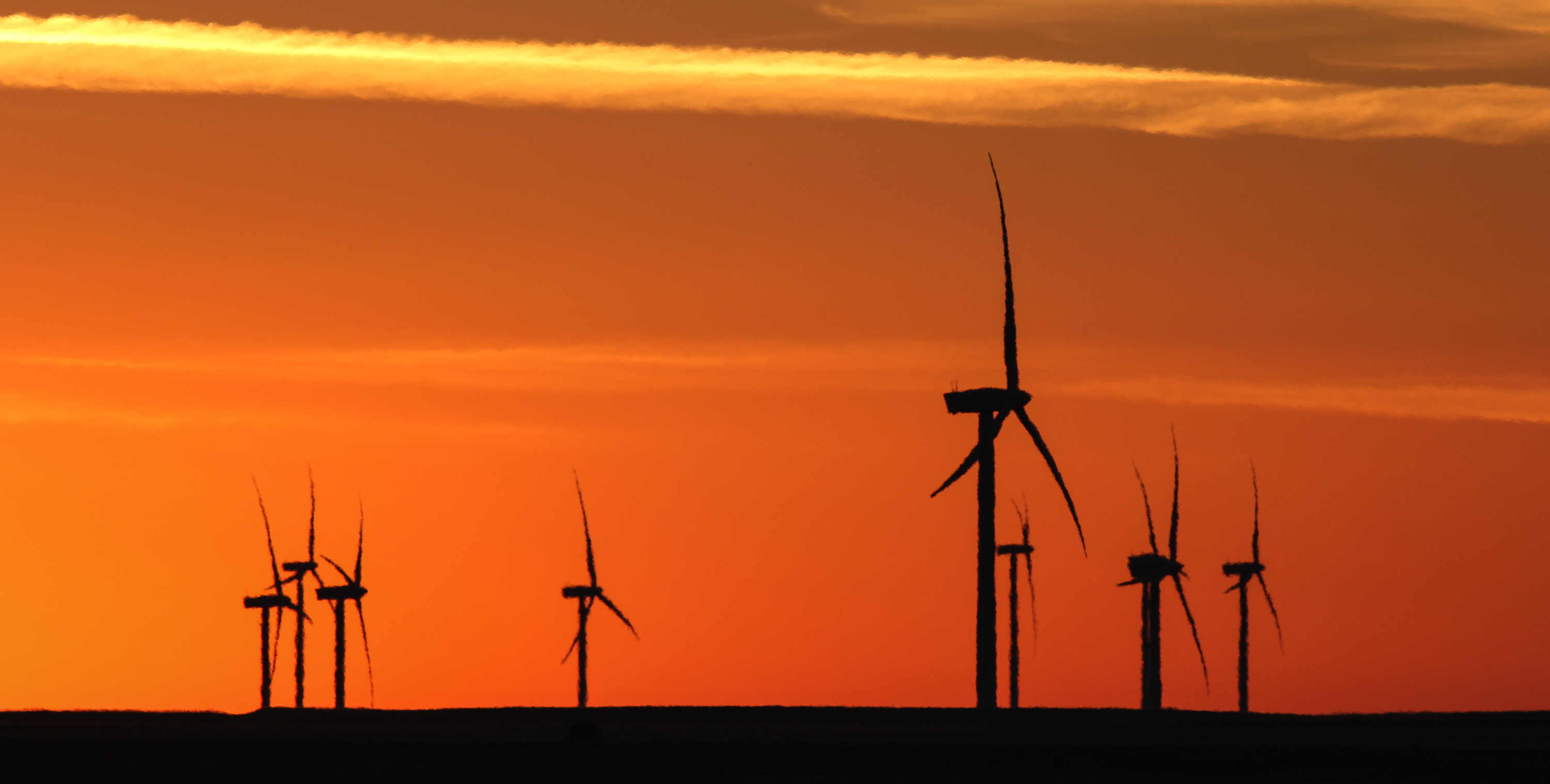 Centennial Wind Power Facility at sunrise taking at a distance looking east towards the facility.